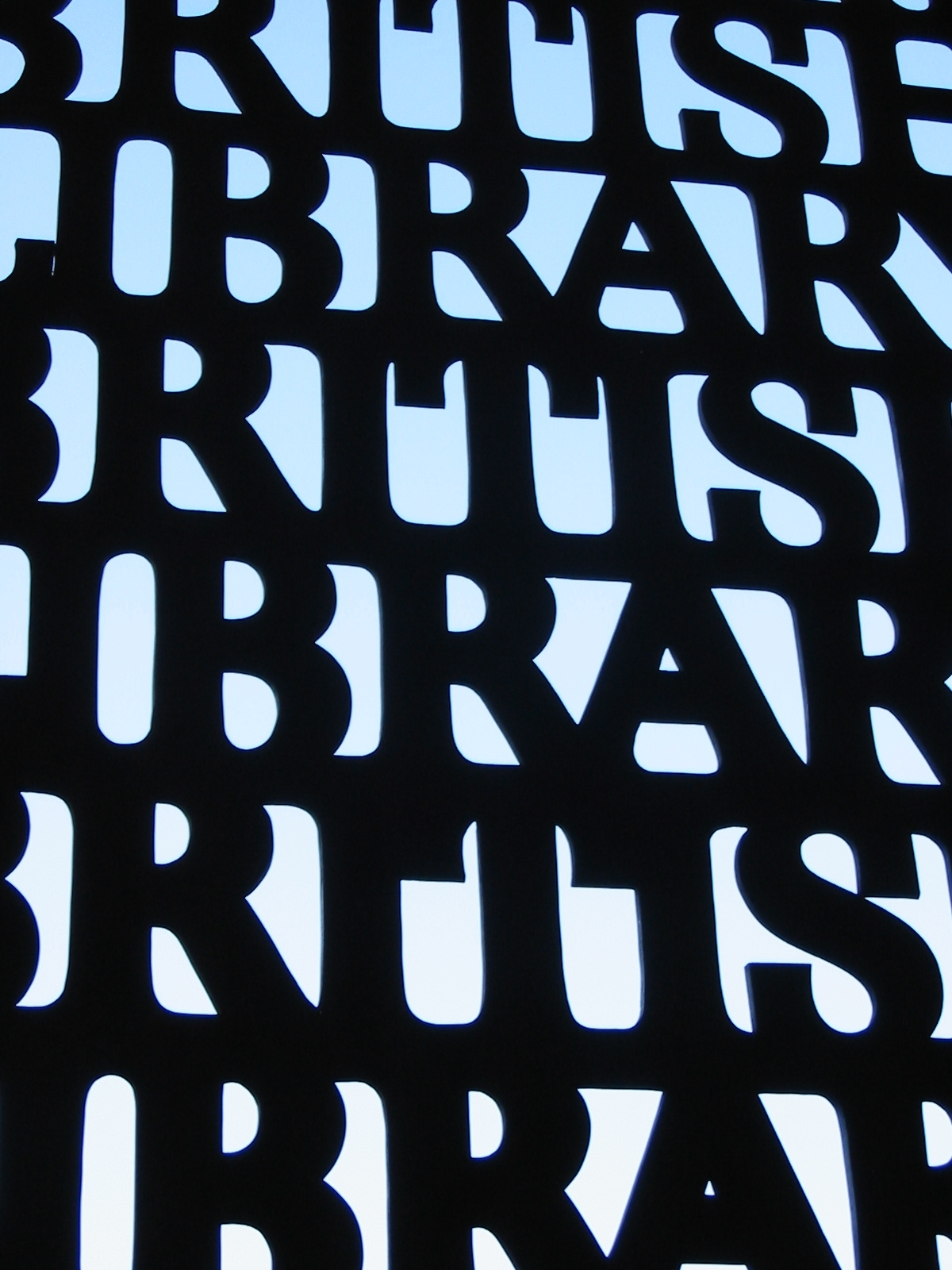 London